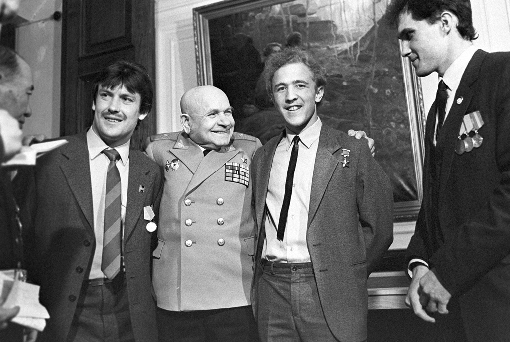 “WWII veteran Filipp Zhgirov with soldiers-internationalists”. The commemorative medal "To Soldier-Internationalist from the Grateful Afghan People" being received by a group of Soviet servicemen as well as reserve soldiers who performed their military duty. Yury Shikov (second right), a Hero of the Soviet Union. Filipp Zhgirov (third right), a veteran of the Great Patriotic War of 1941-1945, a Hero of the Soviet Union.